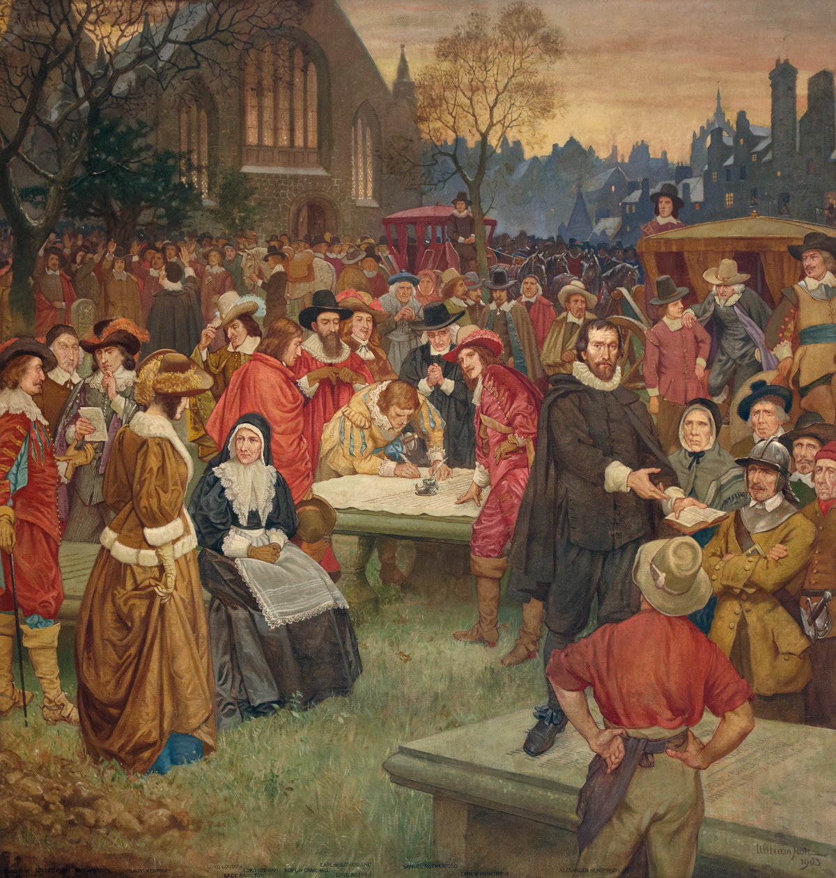 Hole, William Brassey; The Signing of the National Covenant in Greyfriars Churchyard, 1638; City of Edinburgh Council